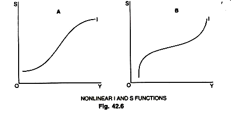 Kaldor business cycle part 1